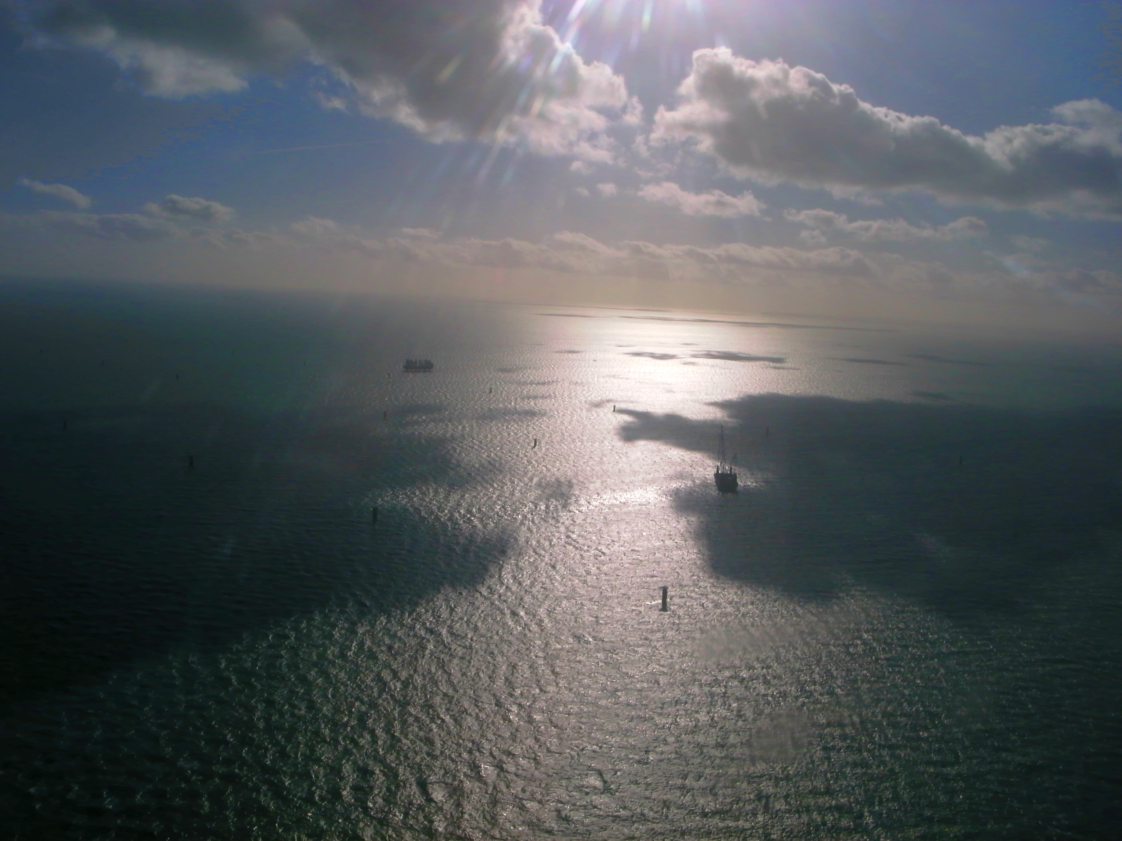 Wind turbines under construction in the North Sea east of Kent. Taken from light aircraft GBIRT